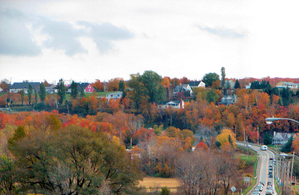 Saint-Pierre-de-l'Île-d'Orléans, Île d'Orléans, Quebec, Canada